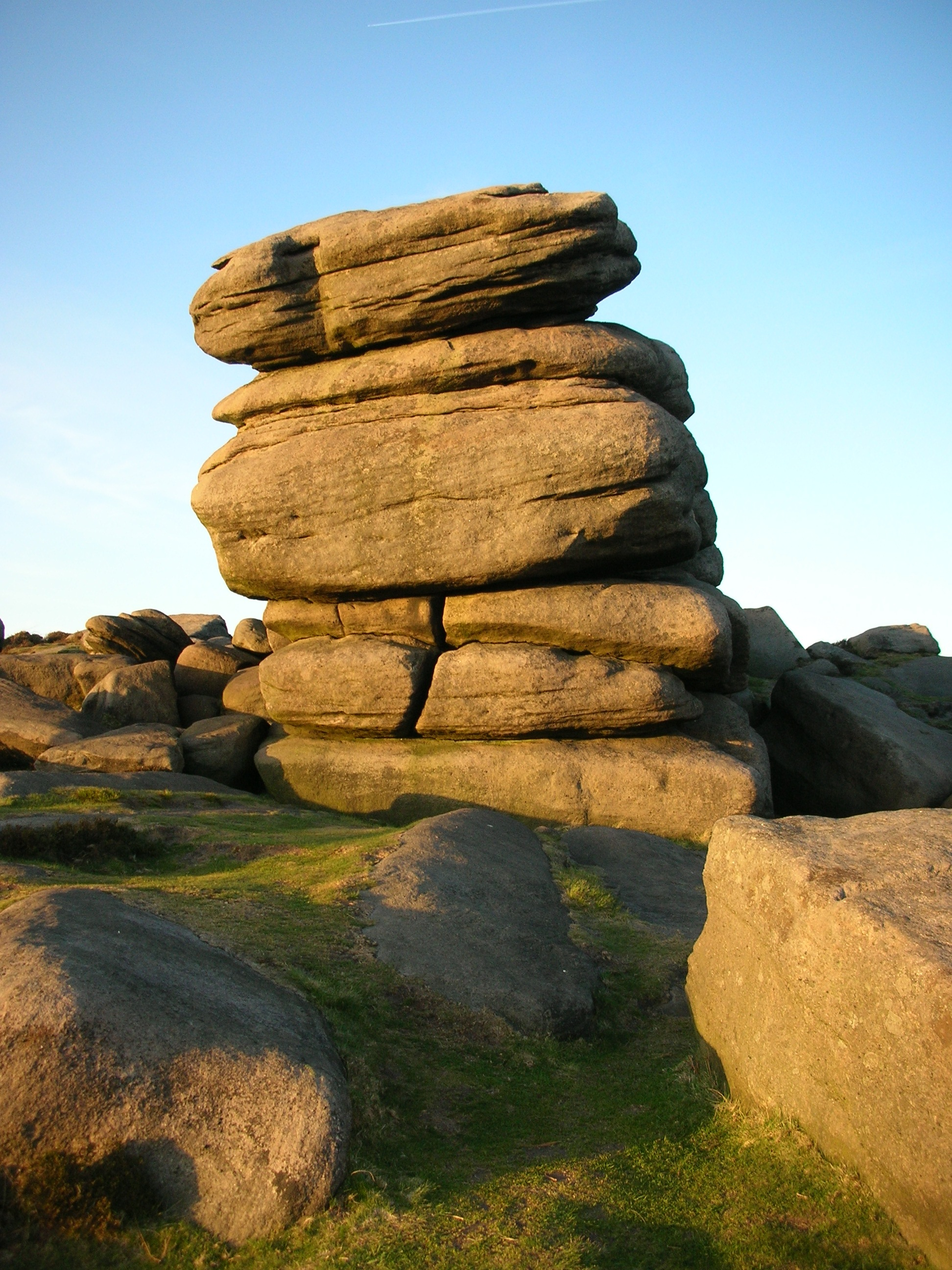 A millstone grit boulder at Higger Tor in the High Peak of Derbyshire, England. Photographed by me 18 April 2007. Oosoom